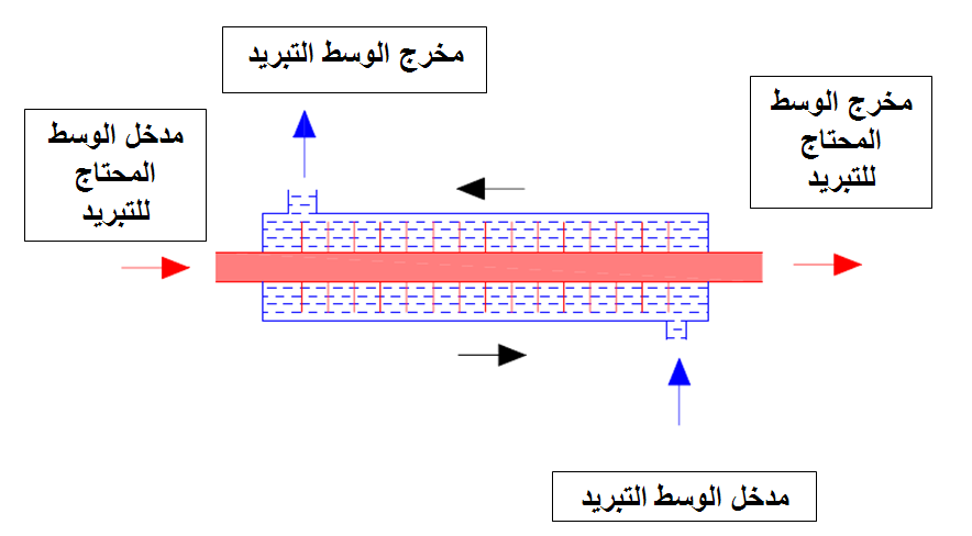 Heat exchanger